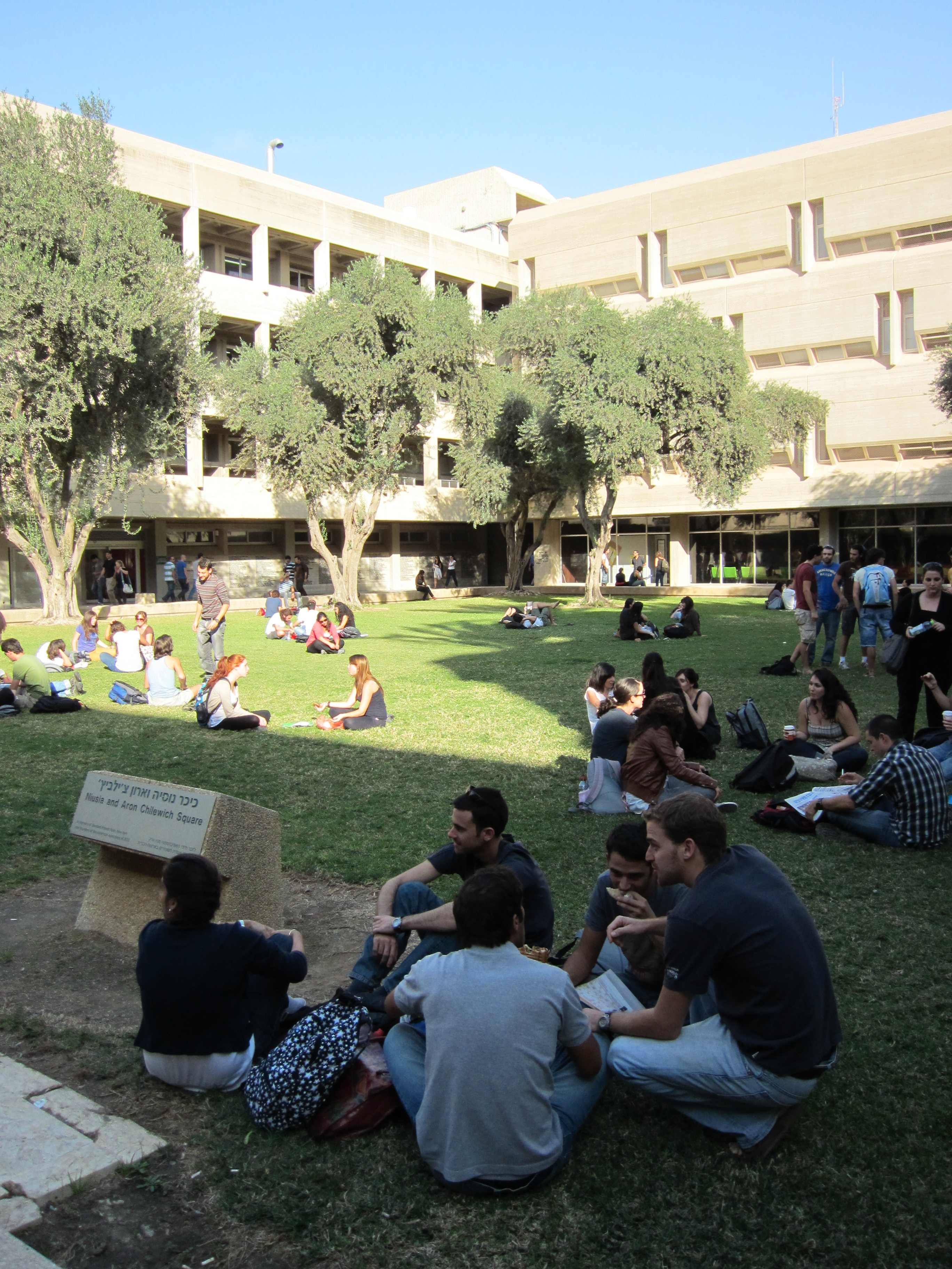 Ben Gurion University of the Negev (Photo: David Saranga)